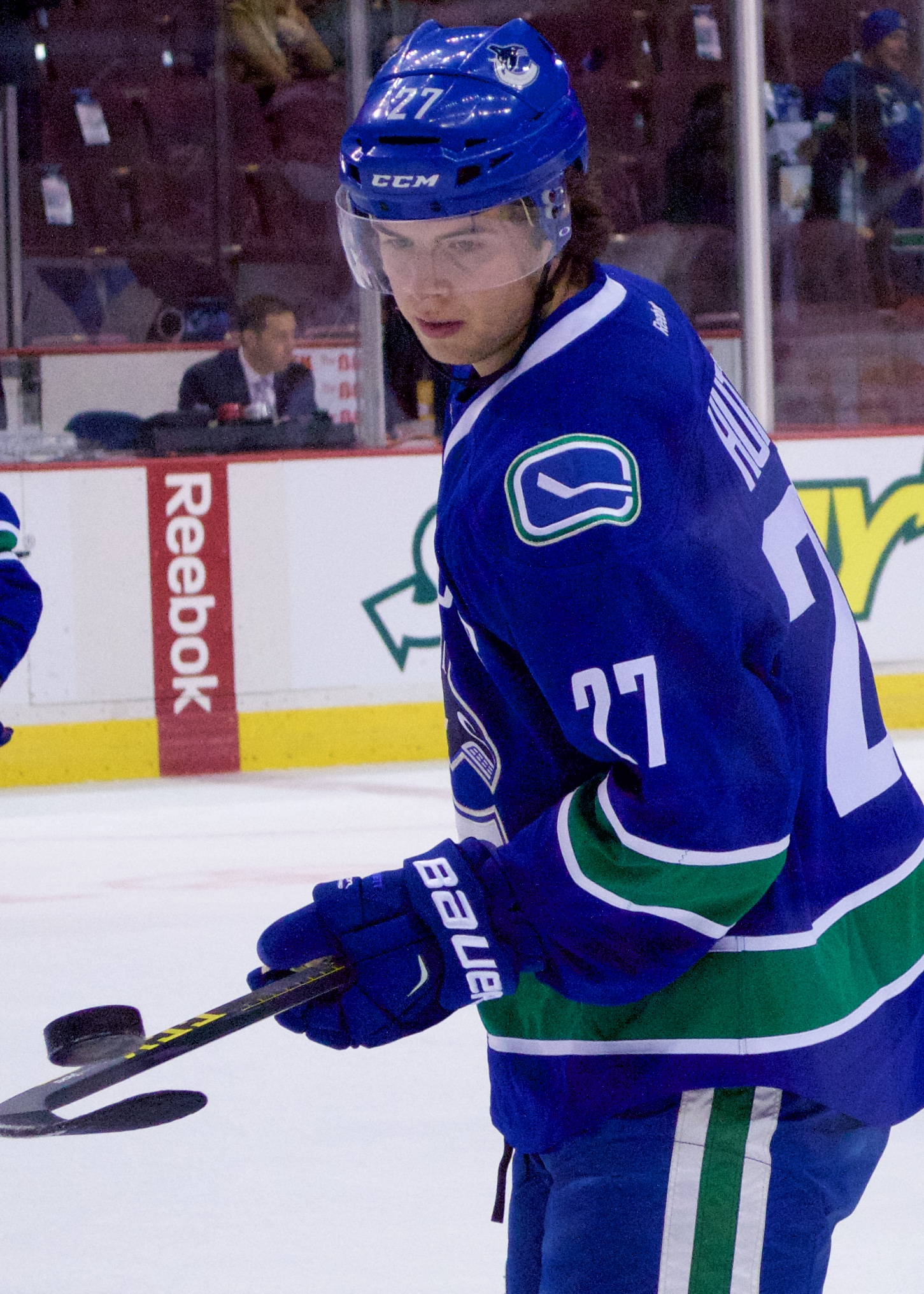 Vancouver Canucks defenceman Ben Hutton during pre-game warmup on October 22, 2015.